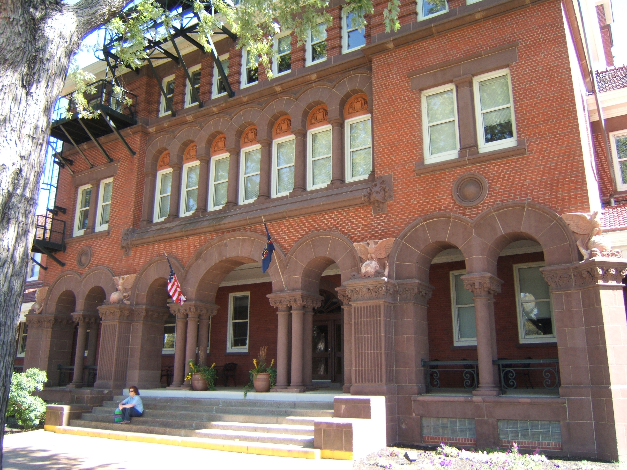 Marine Barracks, Building 100, former Philadelphia Naval Shipyard,Constitution Avenue and S. 13th Street, 4800 South 13th Street, Philadelphia, PA 19112 West side